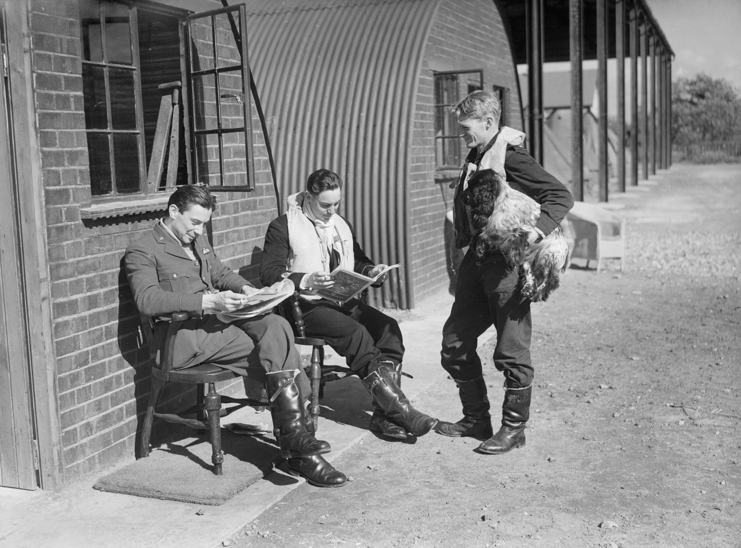 Pilots of No. 19 Squadron relax between sorties outside their crew room at Manor Farm, Fowlmere, near Duxford, September 1940. Left to right: Pilot Officer W Cunningham, Sub-Lieutenant A G Blake of the Fleet Air Arm and Flying Officer F N Brinsden. Pilots of No. 19 Squadron RAF relax between sorties outside their crew room at Manor Farm, Fowlmere, Cambridgeshire. They are (left to right), Pilot Officer W Cunningham, Sub-Lieutenant A G Blake of the Fleet Air Arm (nicknamed "The Admiral") and Flying Officer F N Brinsden, with Spaniel. Blake was killed the following month in a dogfight over Chelmsford, Essex.